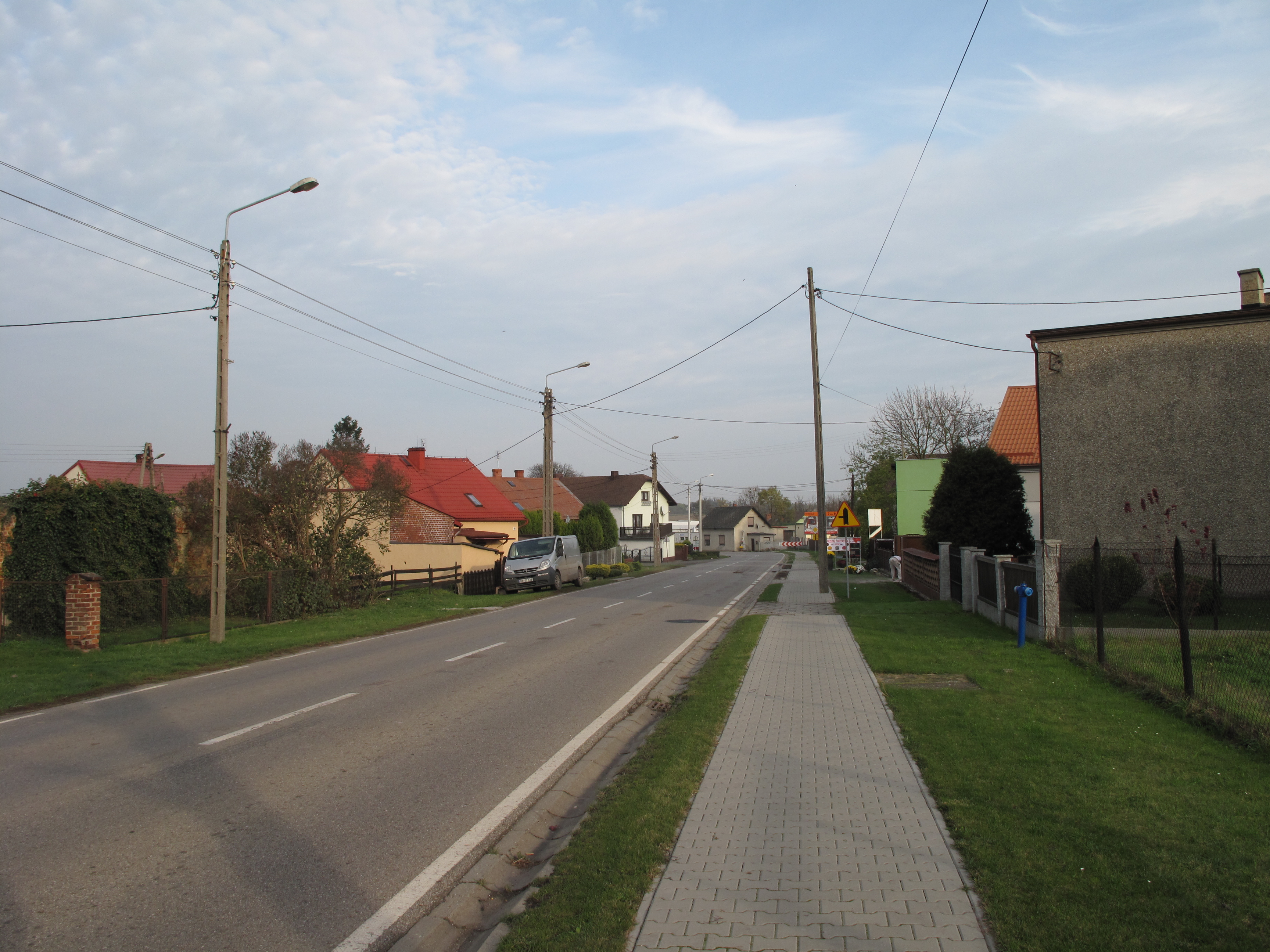 Samborowice (województwo śląskie). Racibórz County, Poland.